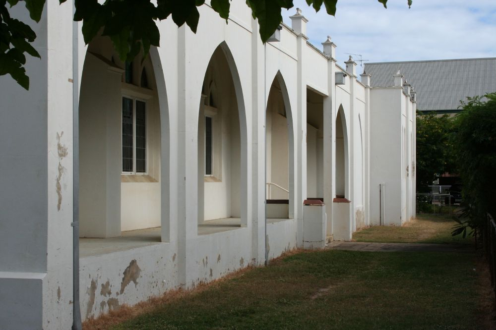 St Josephs Church (2006), side view